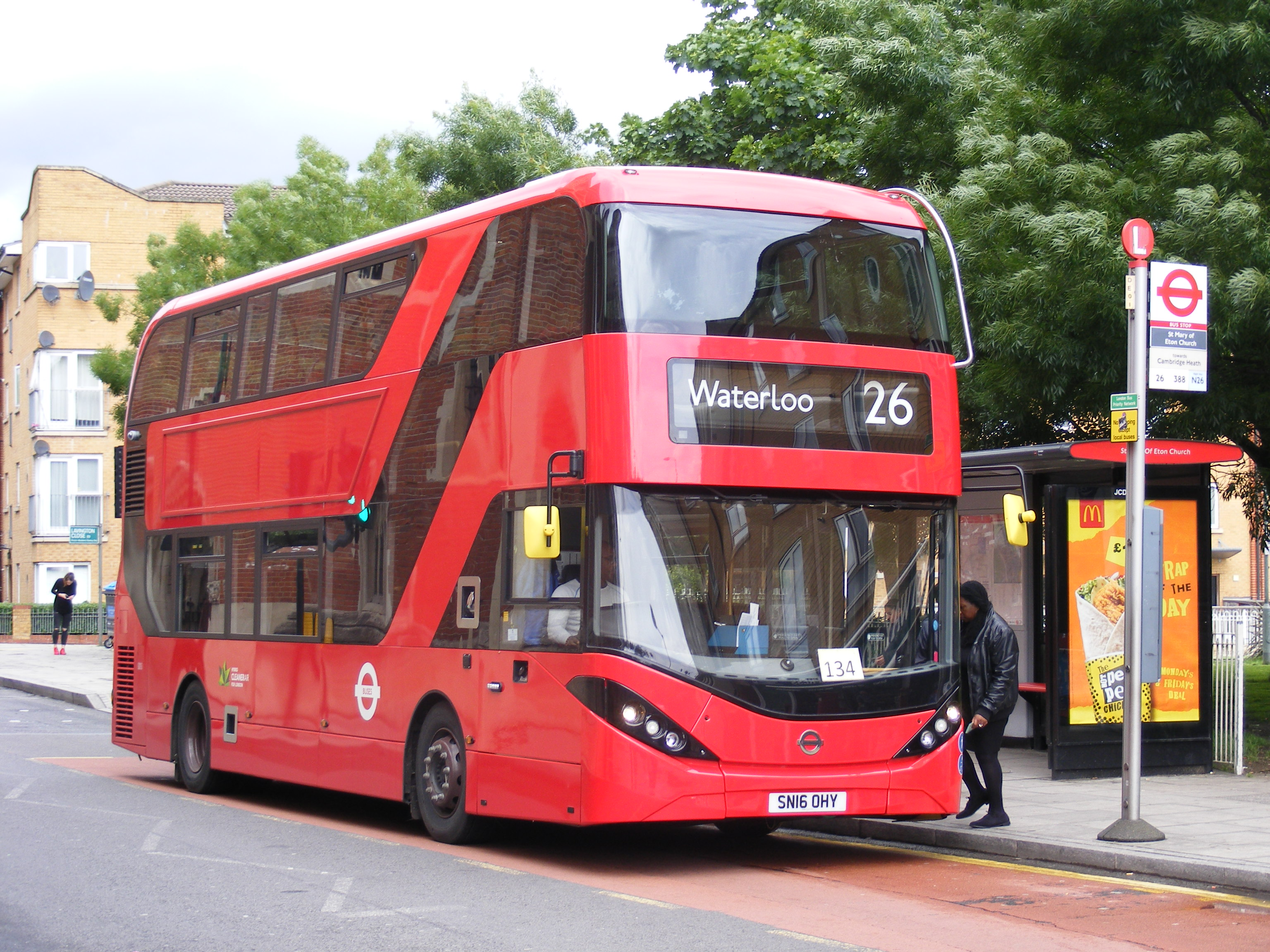 New CT Plus buses on the 26 - no fleetname. Still running alongside ex-Tower Transit Enviro 400s, identified only by legal lettering.